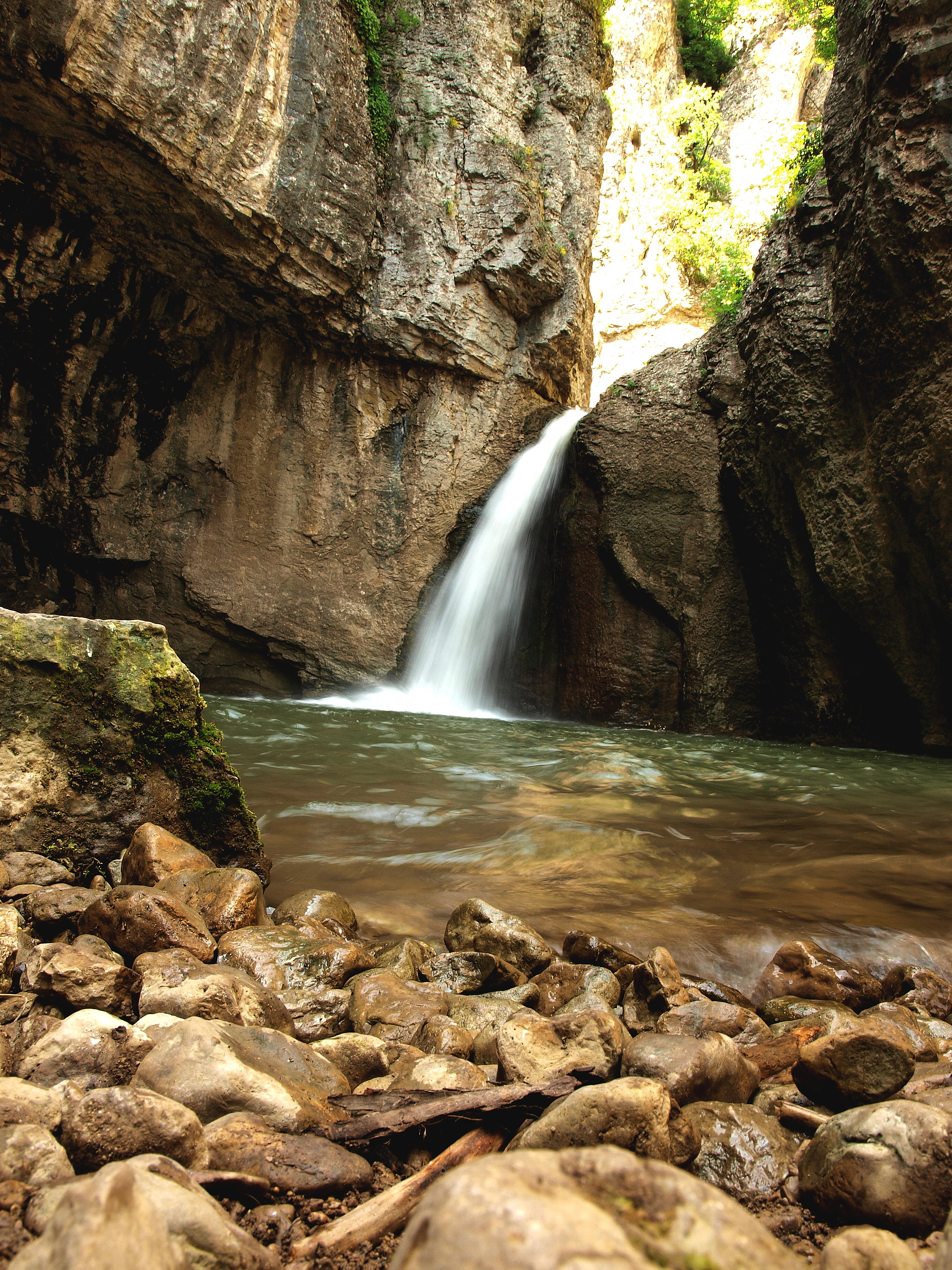 The waterfall at the end of the Emen eco-path in Bulgaria.